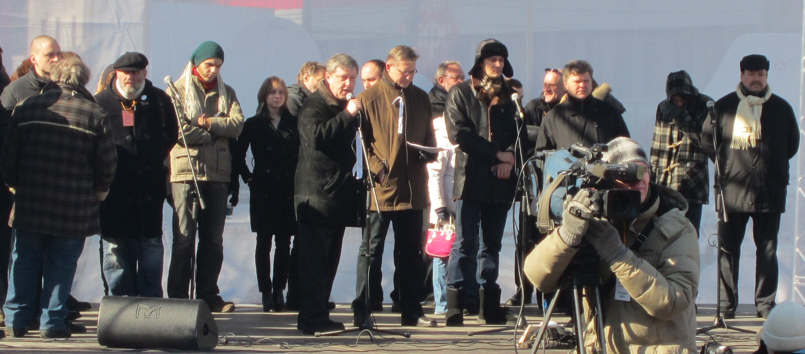 Grigory Yavlinsky speaks at Moscow rally 10 March 2012